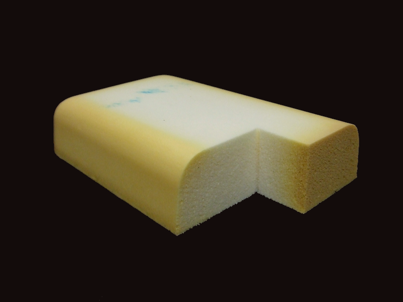 Photograph of a piece of polyurethane flex molded foam that has been discolored by exposure to UV light.